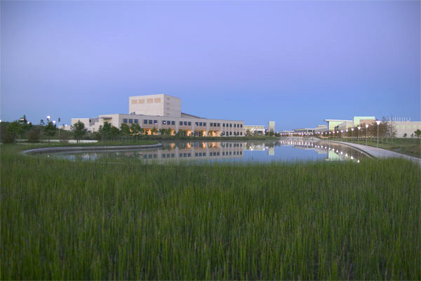 View of Cy-Fair College